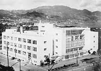 1954年の開館当時の滋賀会館。